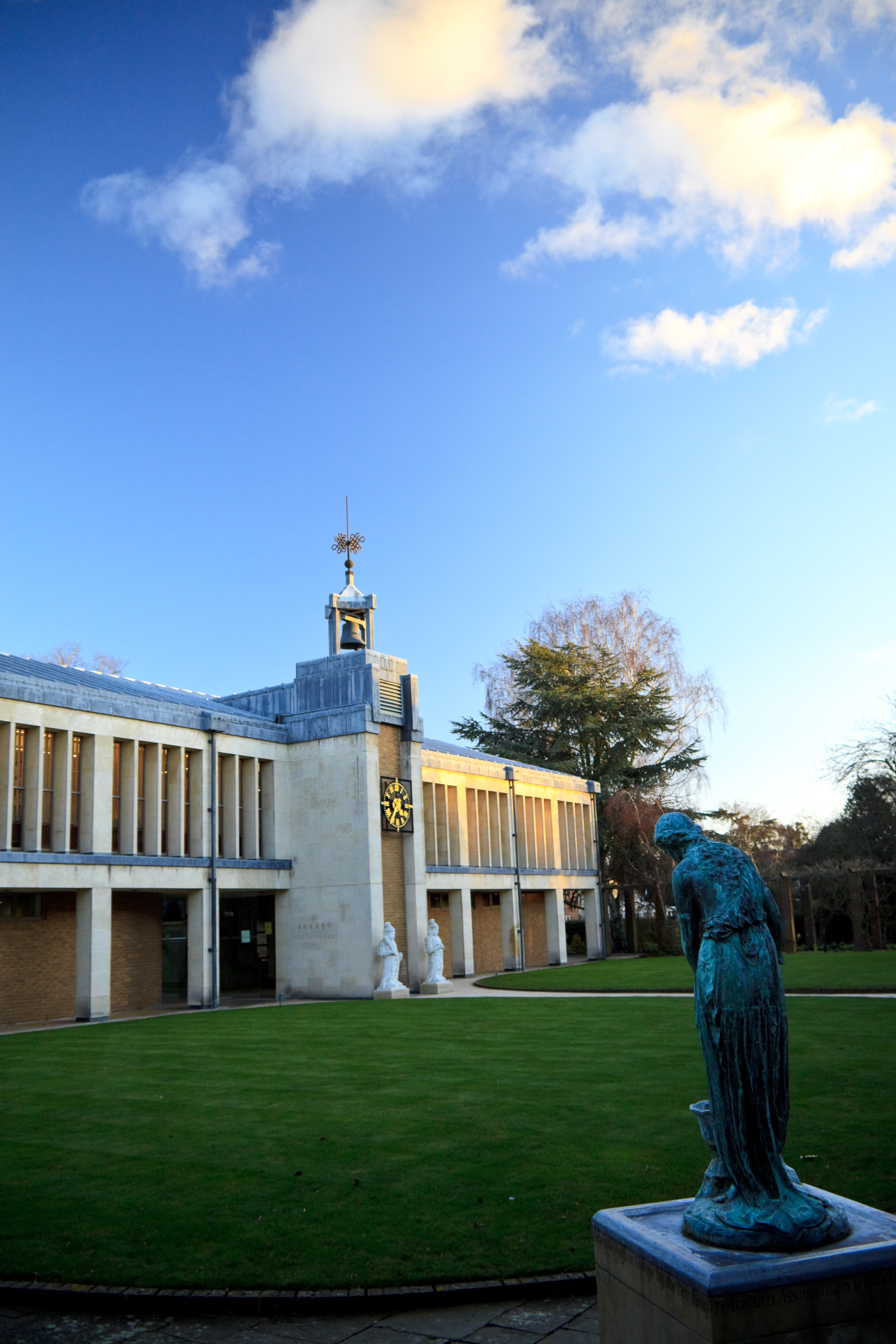 Lee Seng Tee Library, Wolfson College, Cambridge